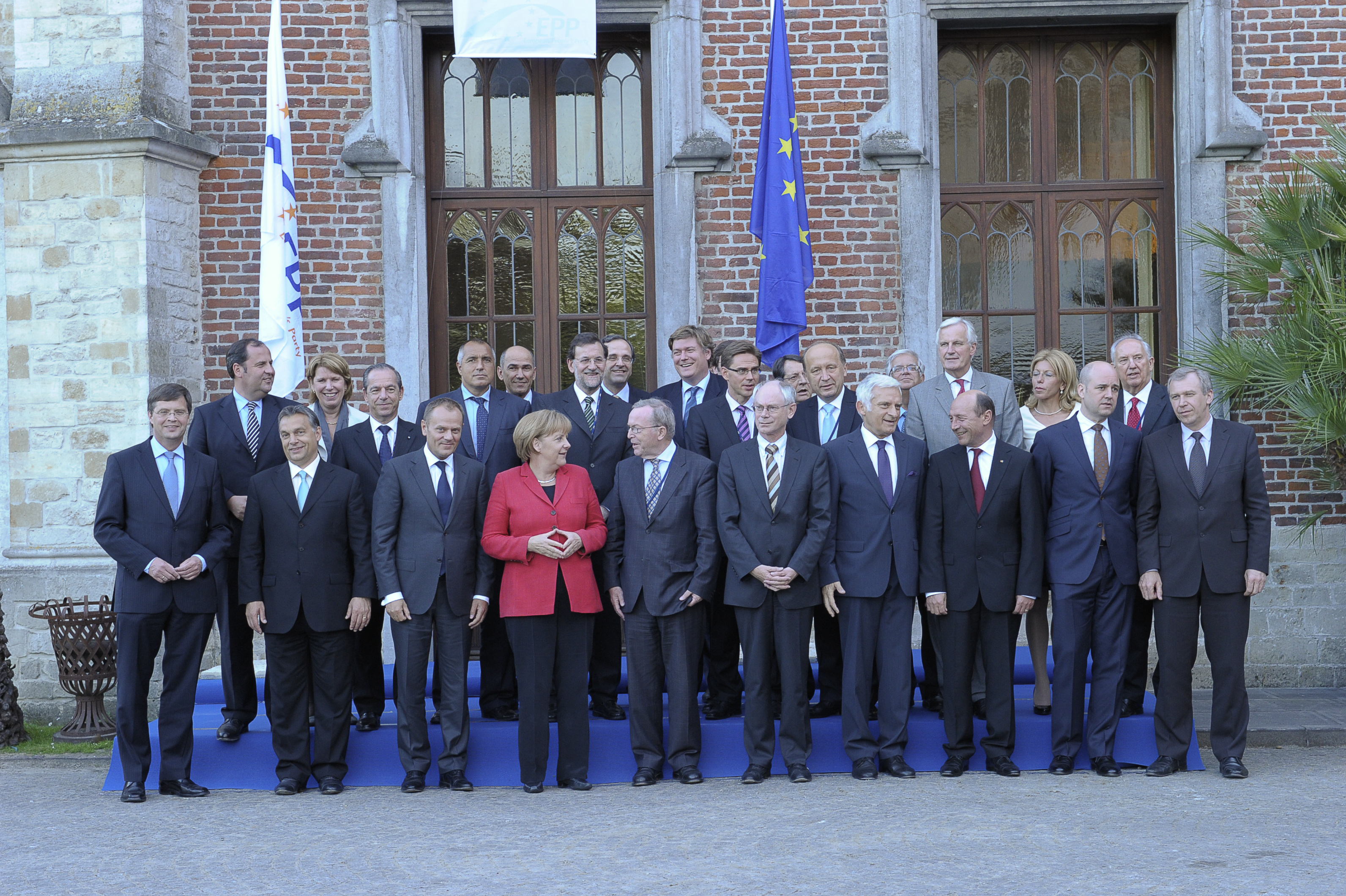 EPP Family photo. 1st row (from the left): J.P. Balkenende, V.Orban, D.Tusk, A.Merkel, W.Martens, H. Van Rompuy, J.Buzek, T.Basescu, F.Reinfeldt, Y.Leterme 2nd row (from the left): J.Proell, L.Gonzi, B.Borisov, M.Rajoy, J.Katainen, A.Kubilius, M.Barnier, R.Jeleva, I.Friedrich 3rd row: C.Wortmann-Kool, J.Jansa, A.Samaras, A.Lopez-Isturiz, N.Anastassiades, M.David